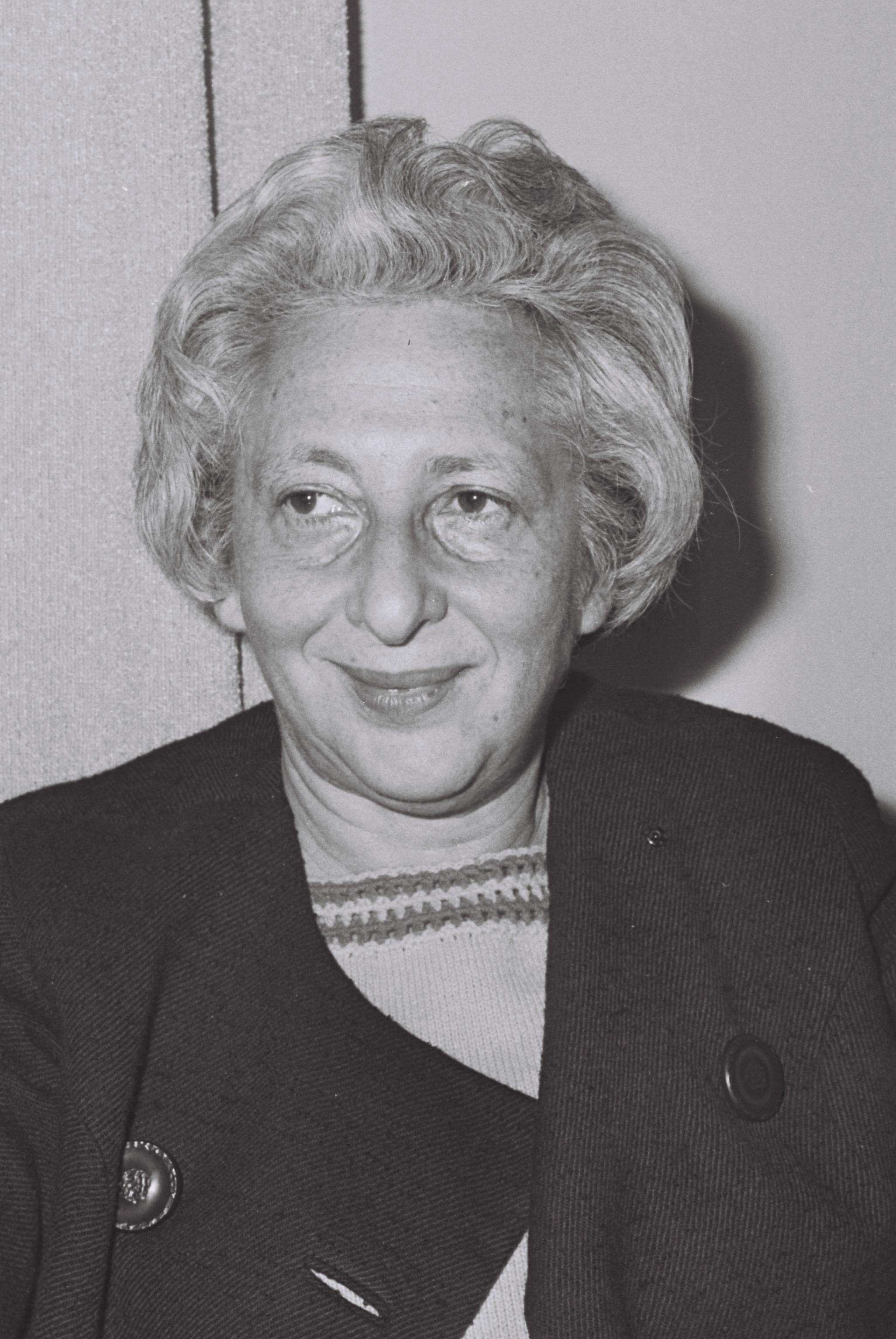 Portrait of Nnesset member Zina Harman.